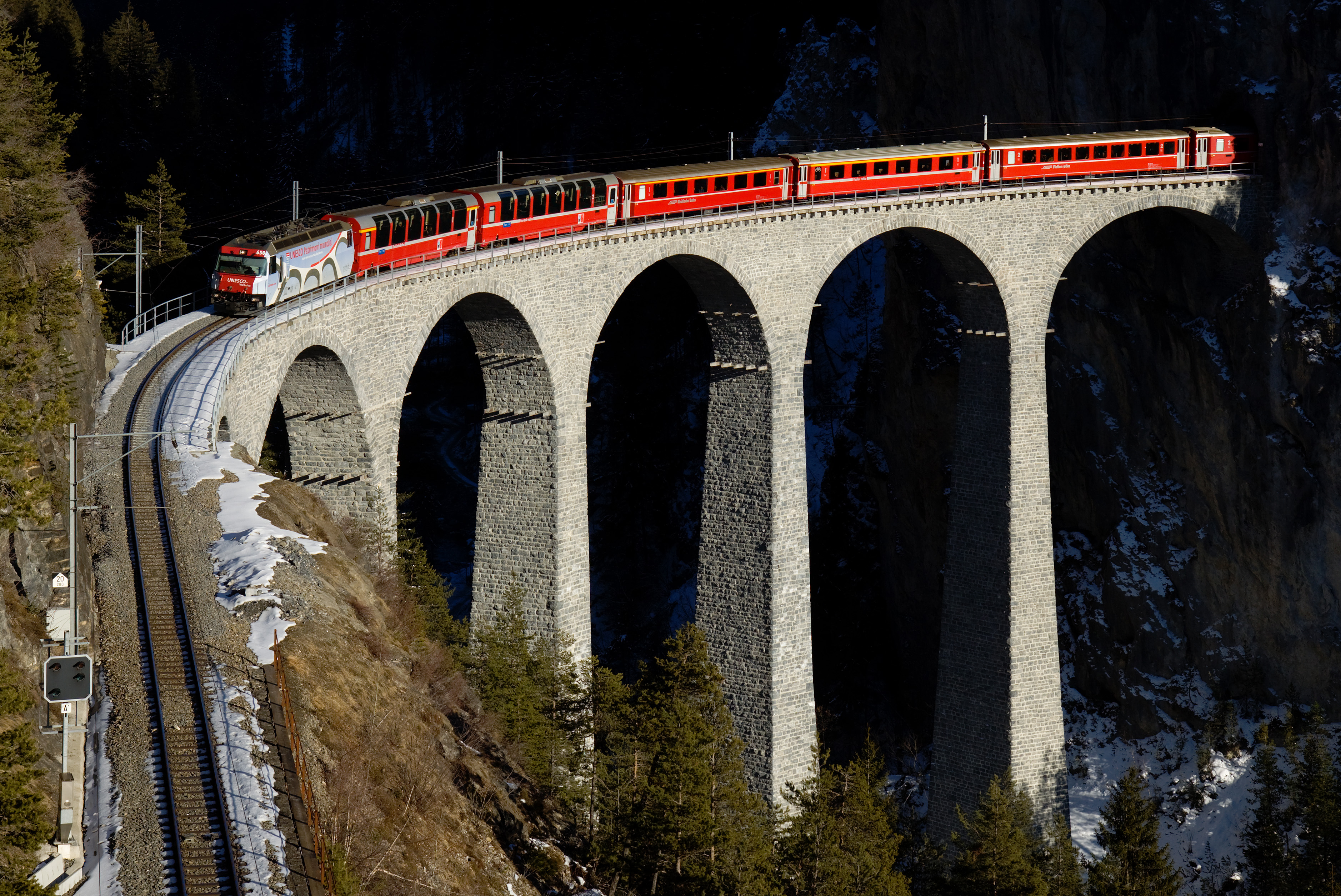 RhB Ge 4/4 III with a Regio Express train from St. Moritz to Chur on the Landwasser viaduct. The locomotive carries advertisement for the UNESCO world heritage Albula and Bernina lines. The stylized viaduct pictured on the locomotive is the very same that it is currently passing over! Also note the two first panoramic coaches. This type of panoramic coach is normally used on the Bernina line, but because there's less traffic on that line during winter they use the coaches on other parts of the network.